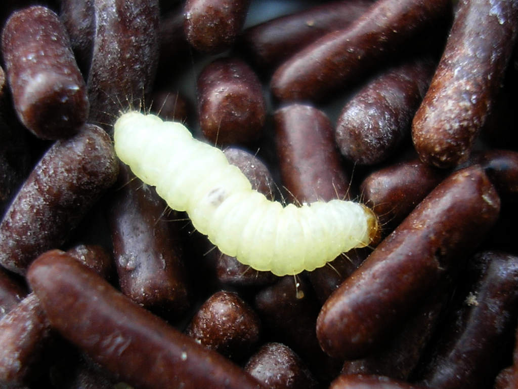 Indian Meal Moth (Plodia interpunctella) - larva. Location: Ballans, 17160 (Charente-Maritime) FranceKeywords: pest, food, chocolate